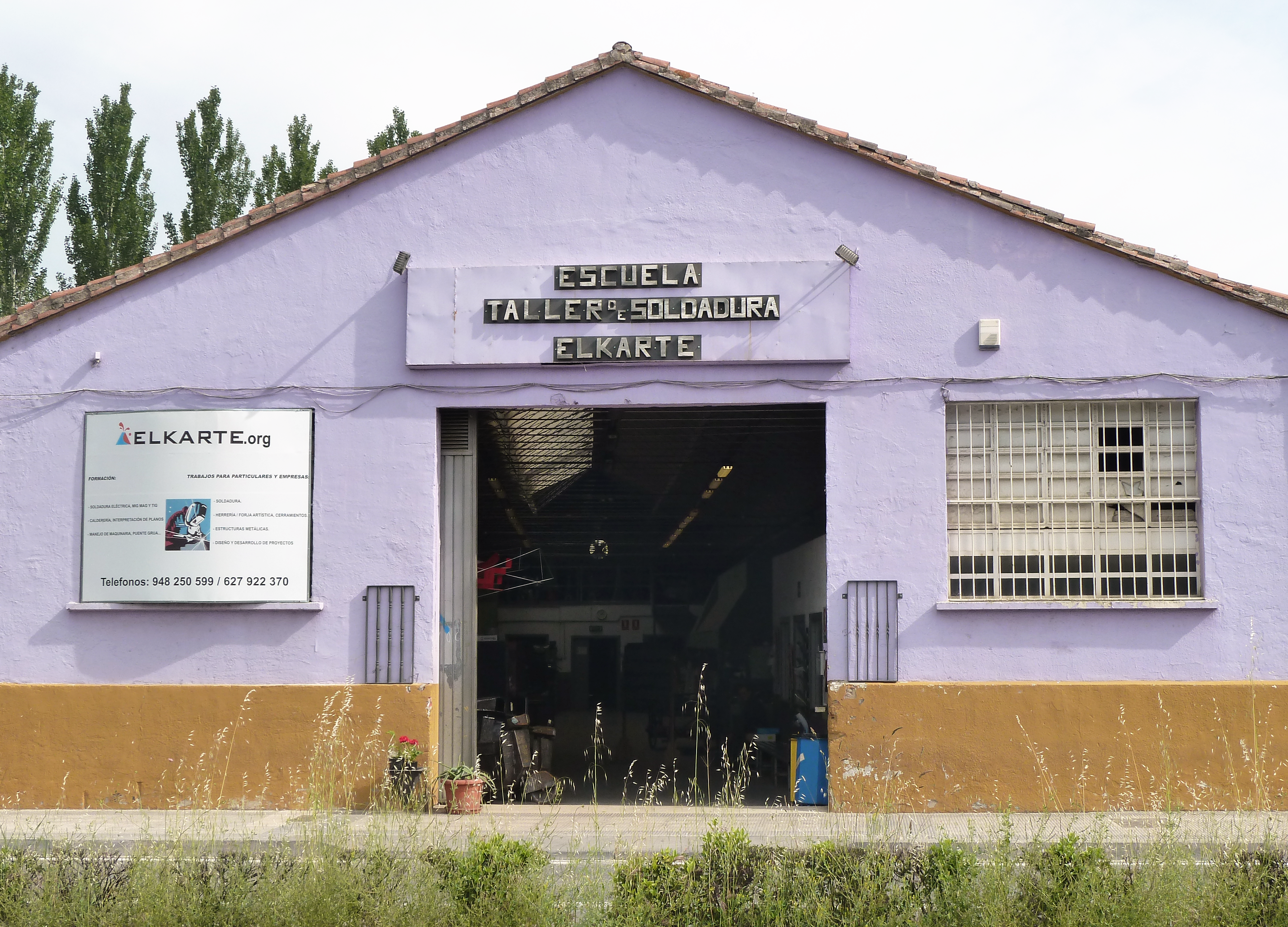 Private center managed by the Elkarte foundation, a nonprofit organization, that offers Basic Professional Qualification Programmes related to the area of Metal in Spanish language. It is located on San Jorge Avenue 42nd (Pamplona/Iruña). Since 2006 also constituted as a job placement center, metal Elkarte SL, whose beneficiaries are people over 40 years with one year old unemployed and people experiencing social exclusion.